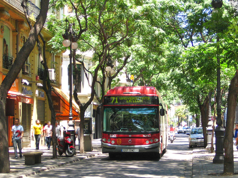 Carrer de Sant Vicent, in the centre of Valencia. Municipal bus. Irisbus chassis?